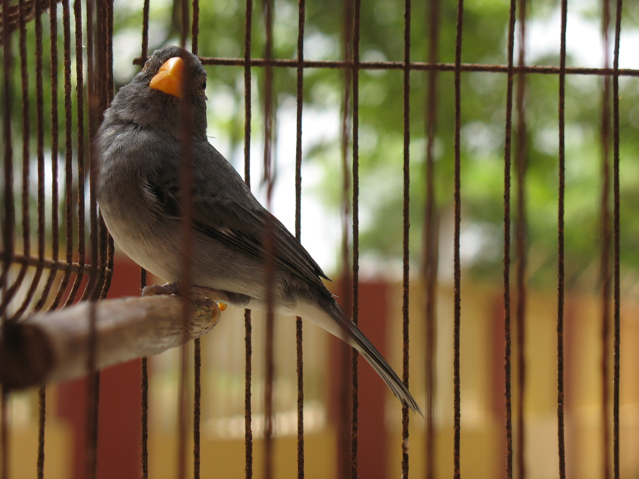 Grey Seedeater in Barranquilla